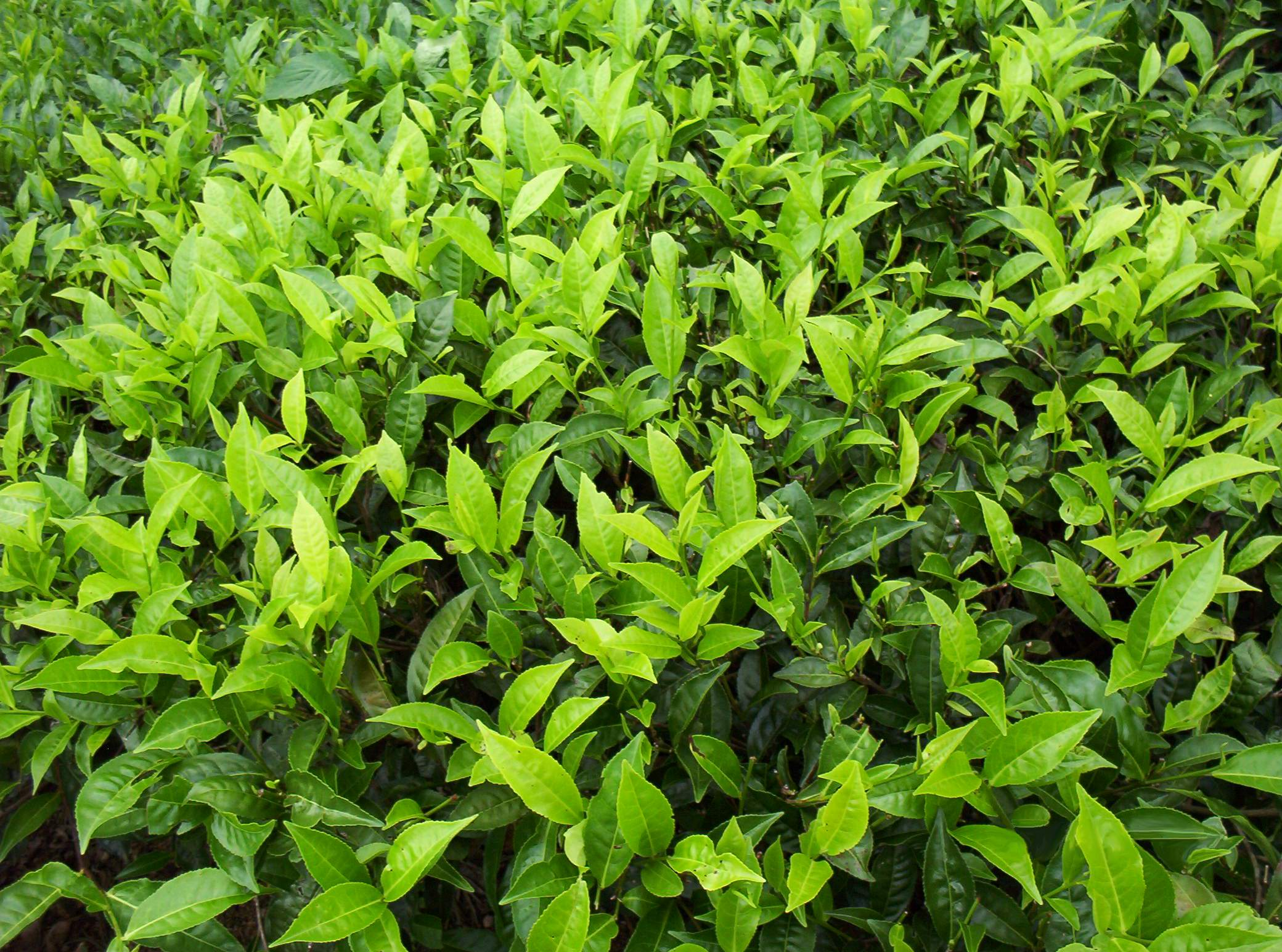 Tea plants